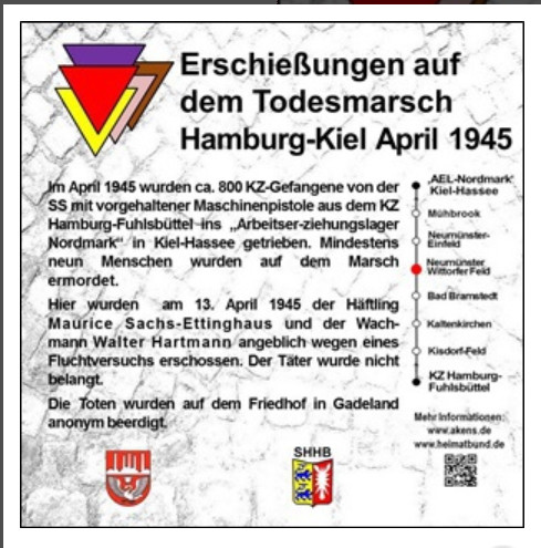 Commemorative Sign signifying the murder of 2 participants in a 1945 death walk in Wittorf (Neumünster); the file is a plain reproduction of the sign with no copyrights meant to be attached